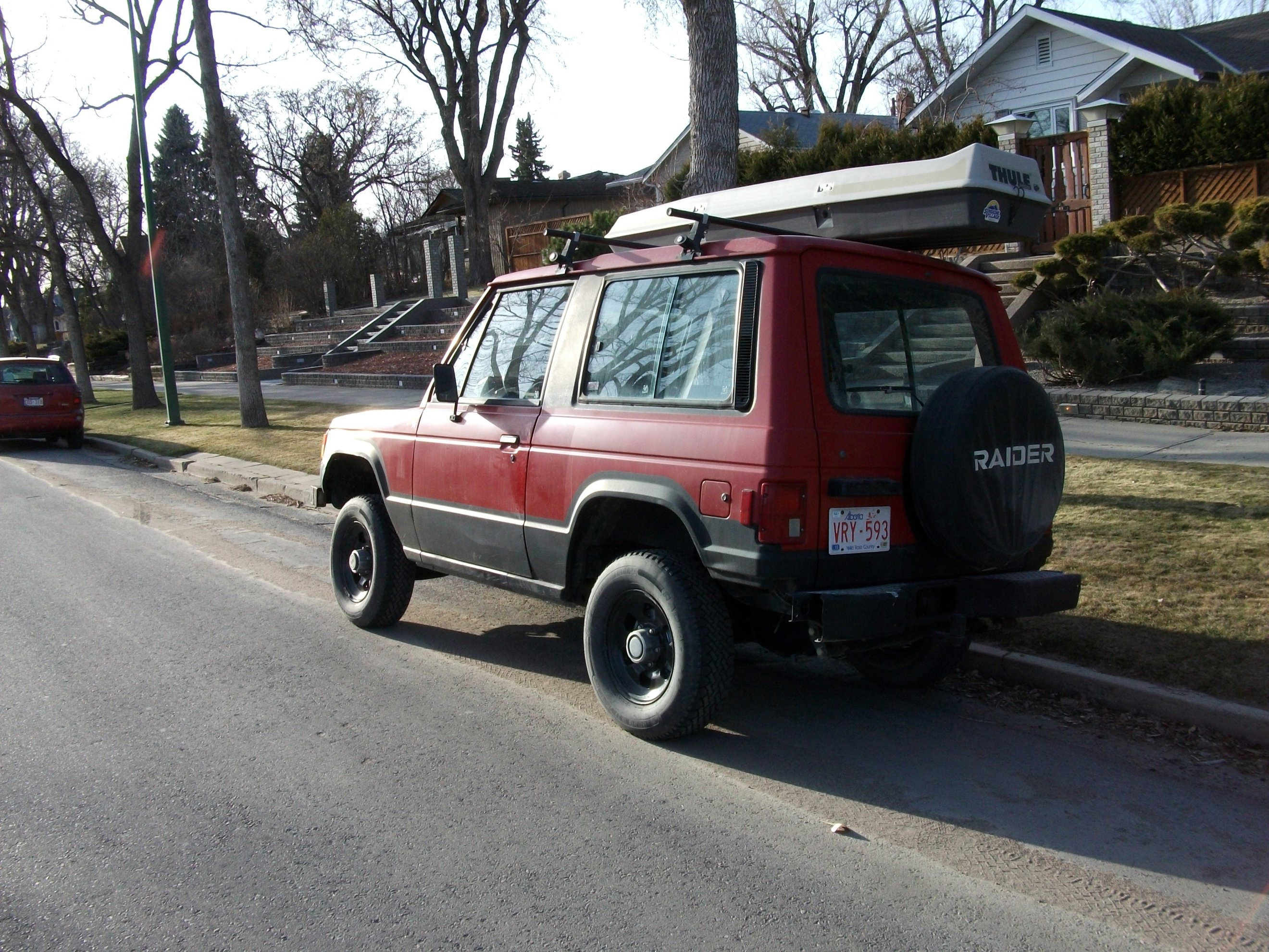 Not too many of these Dodge Raiders left around here. They are a rebadge of a first generation Mitsubishi Pajero.